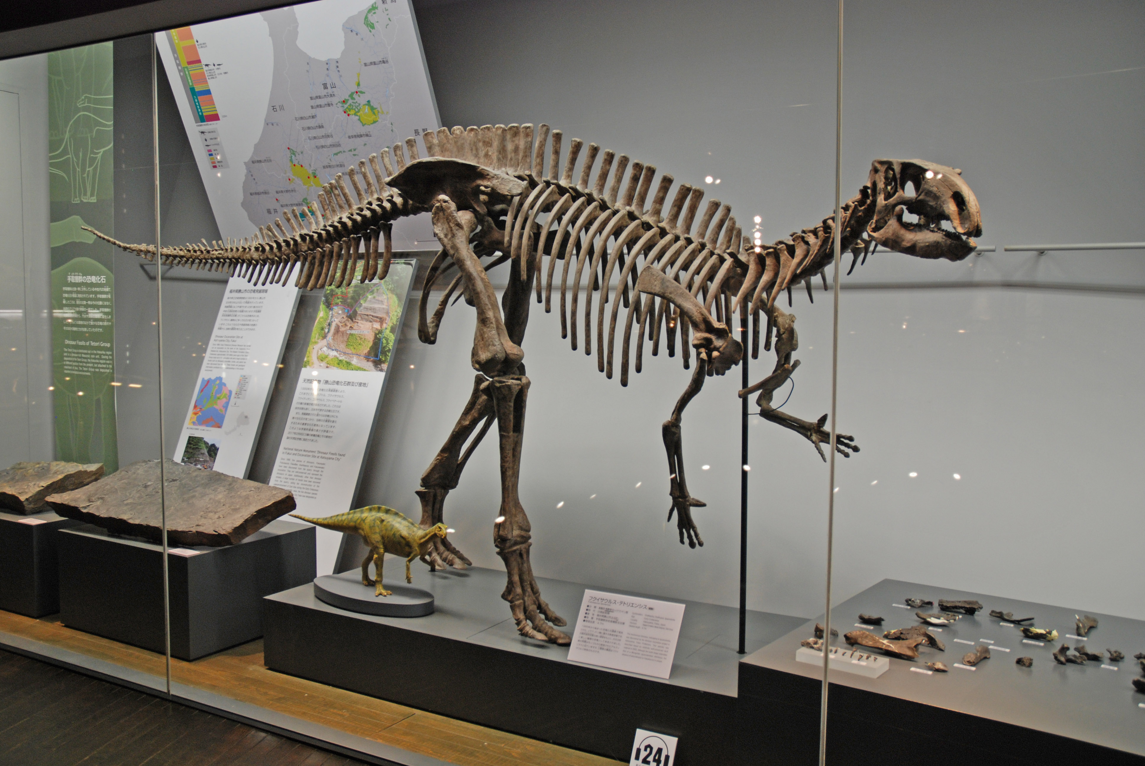 Skeletal mount of Fukuisaurus tetoriensis